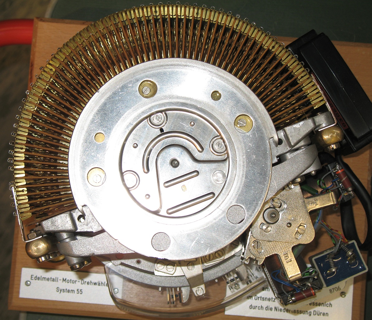 Precious metal contacts motor driven telephone switch in Aachen museum.